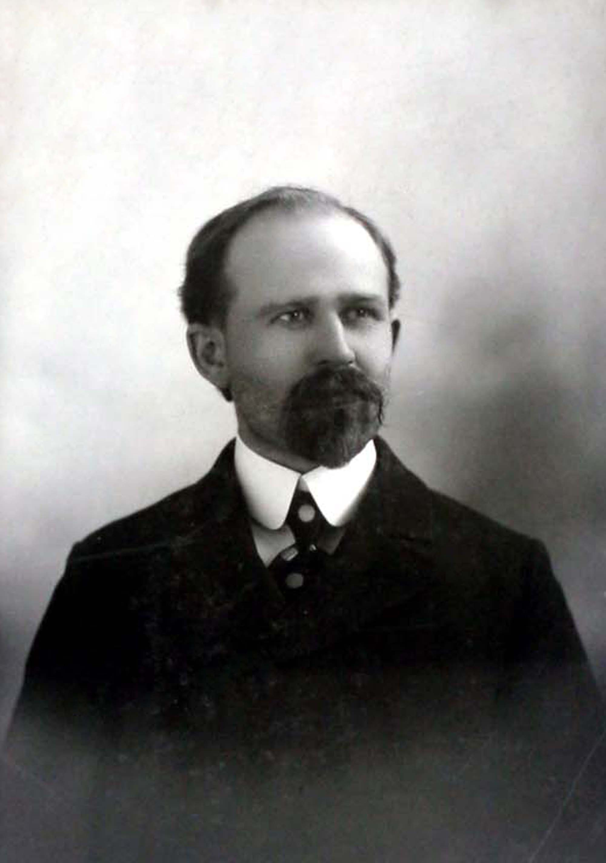 Henry Atkinson was a Christian missionary and witness to the Armenian Genocide